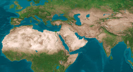 Map of NESA AOO